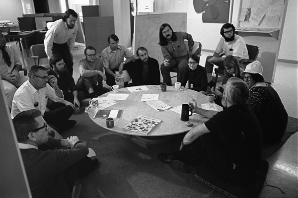 SRI’s Augmentation Research Center, led by Douglas Engelbart (bottom right, facing away from camera)